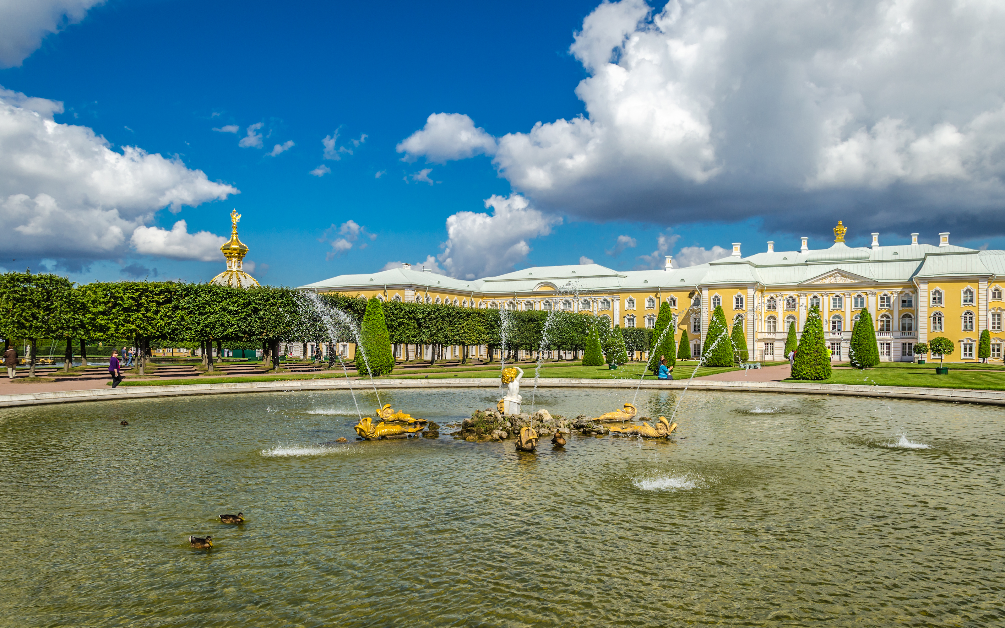 Fountain in the Upper garden of Peterhof